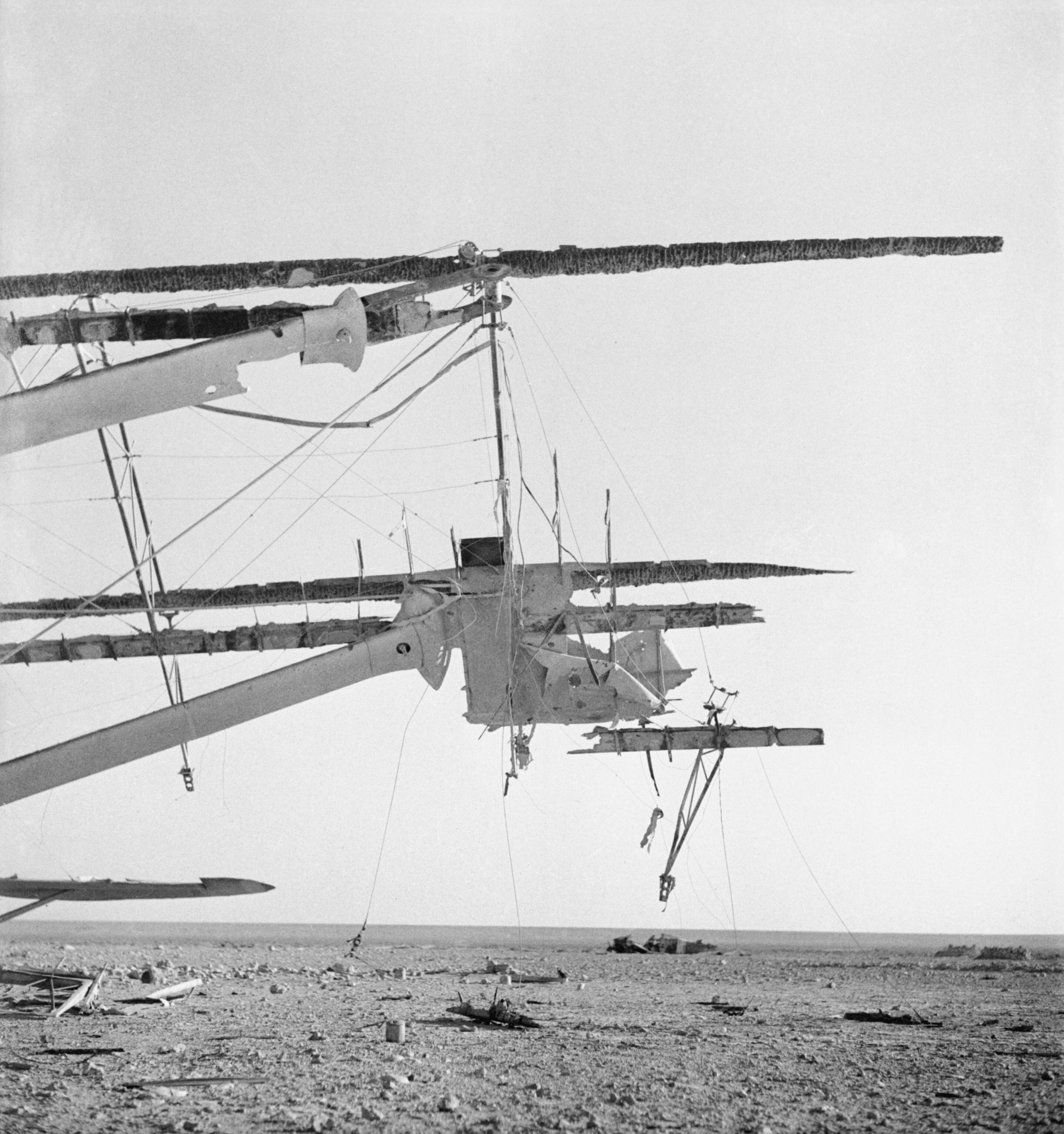 The Campaign in North Africa 1940-1943 The Axis Offensive 1941 - 1942: Wreckage of an Italian aircraft photographed by Cecil Beaton near the Halfaya Pass.